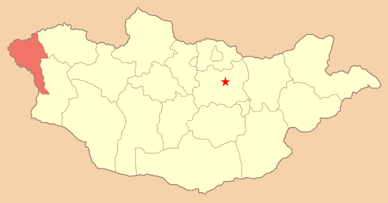 Map of Mongolia with Bayan-Ulgii Aimag highlighted.